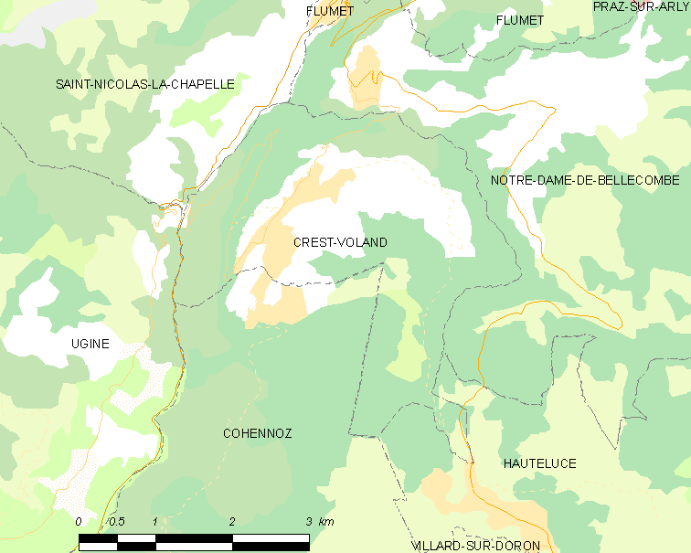 Map of French municipality